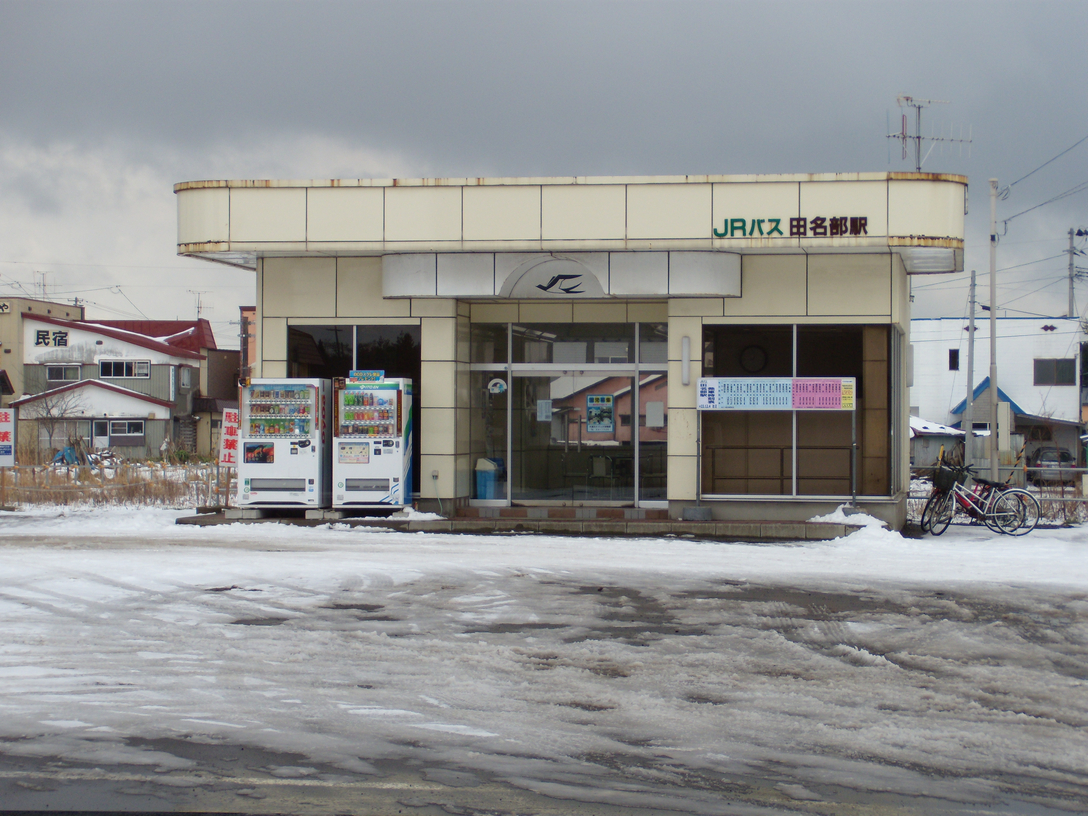 Tanabu station(田名部駅, a bus station of JR Bus Tōhoku, Japan)